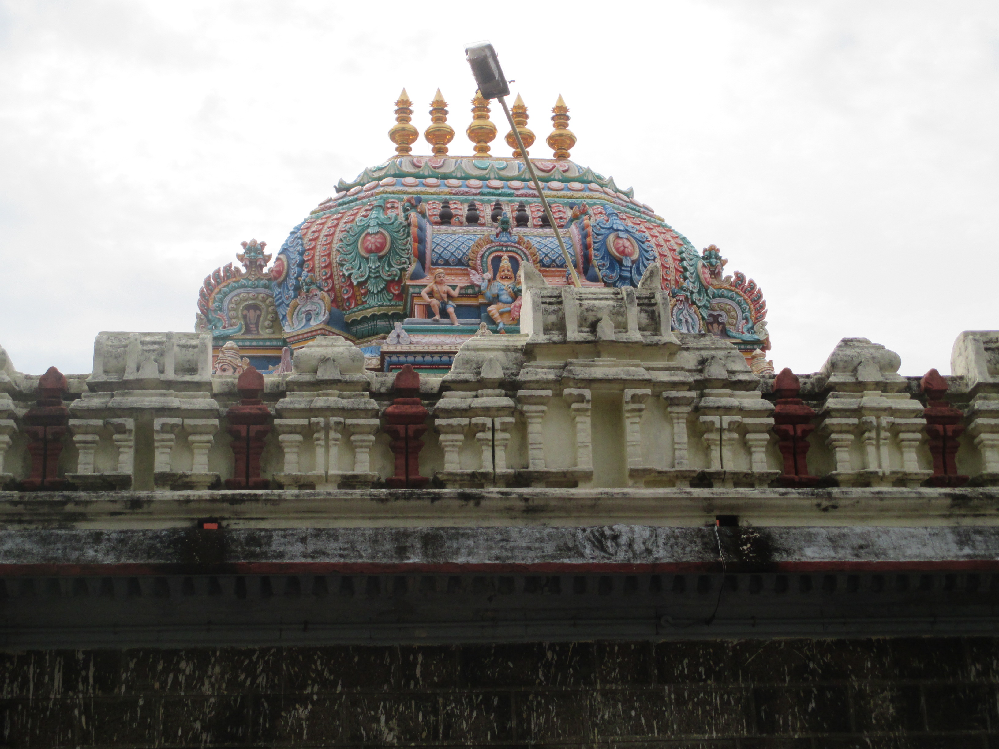 Soundararajaperumal Temple, Nagapattinam